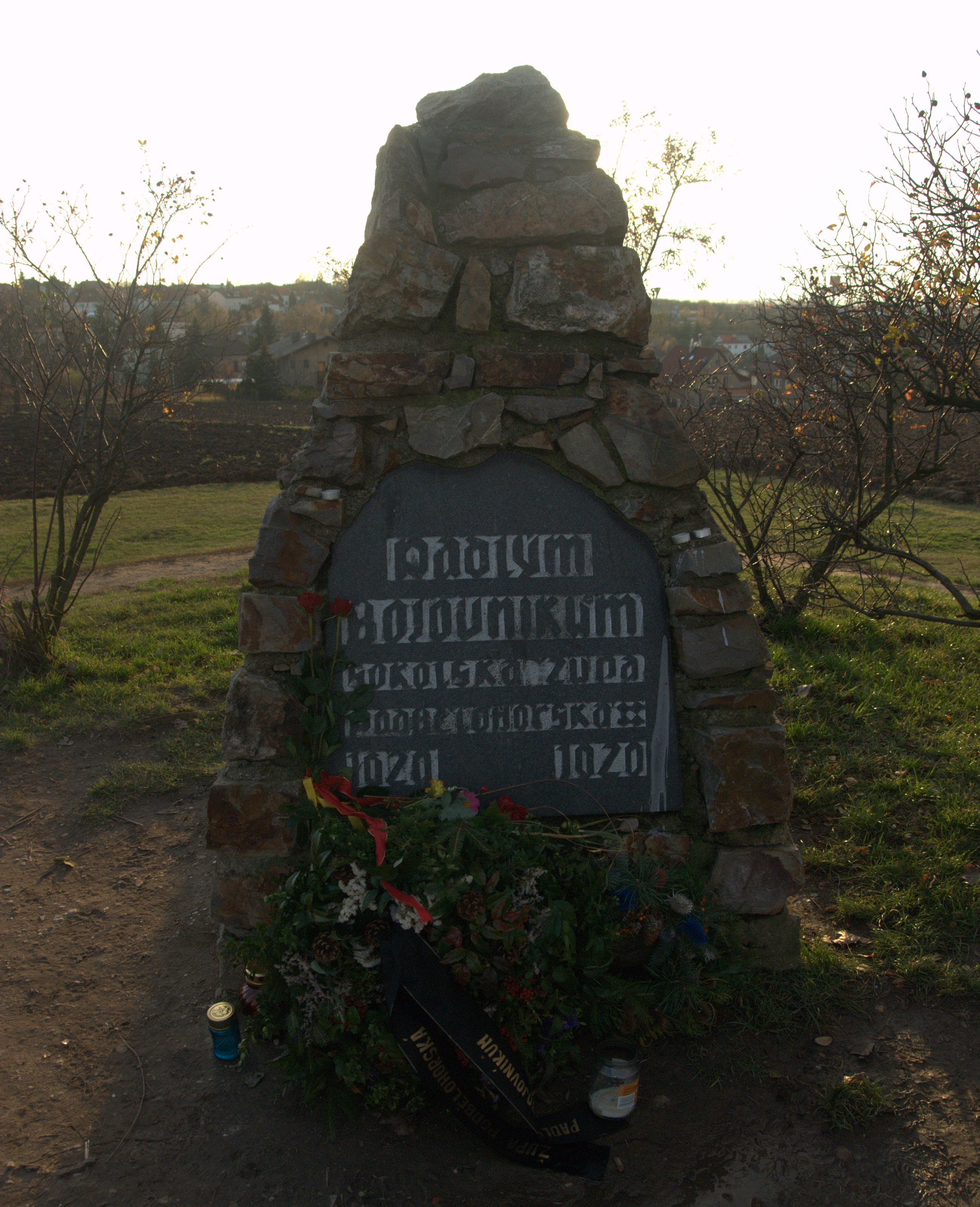 Memorial to the casualties of Battle of White Mountain, Prague